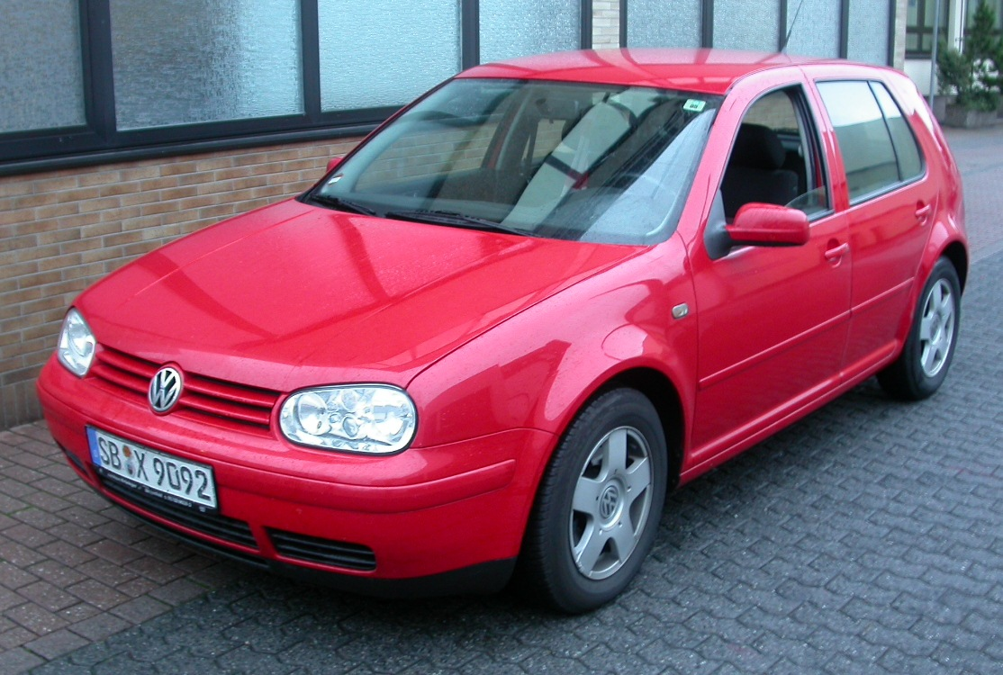 Golf IV 1.8 20V Highline